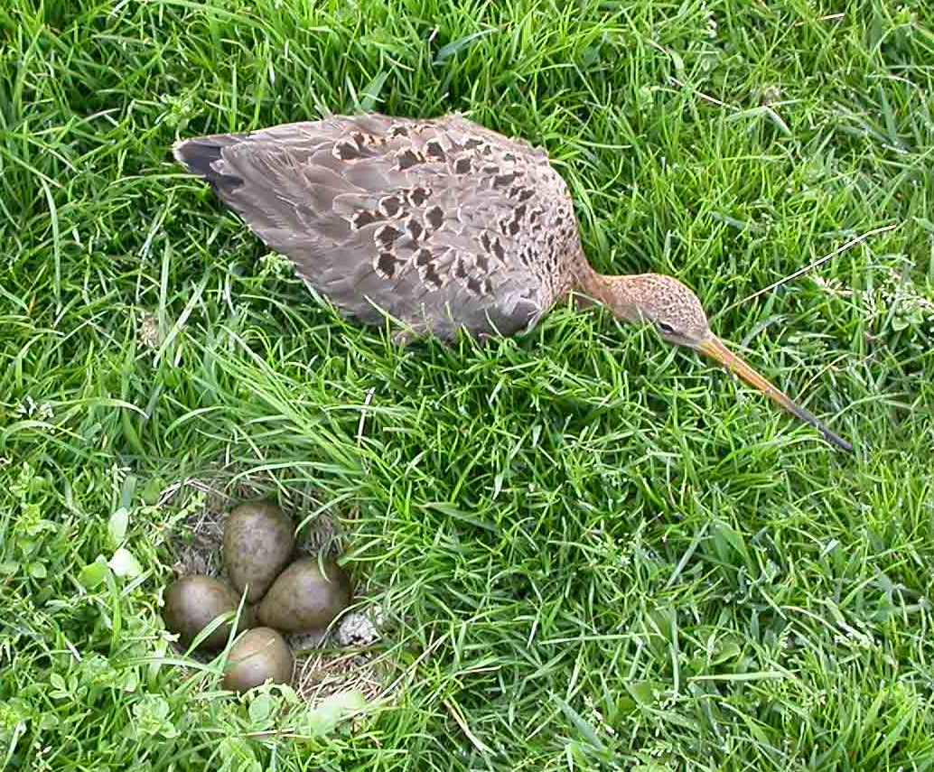 Black-tailed Godwit - notice:This piture was made in the framework of a research project. A permit to visit nests, touch and measure eggs and catch and band birds was given. Neither bird nor nest was not harmed and the bird was set free again.